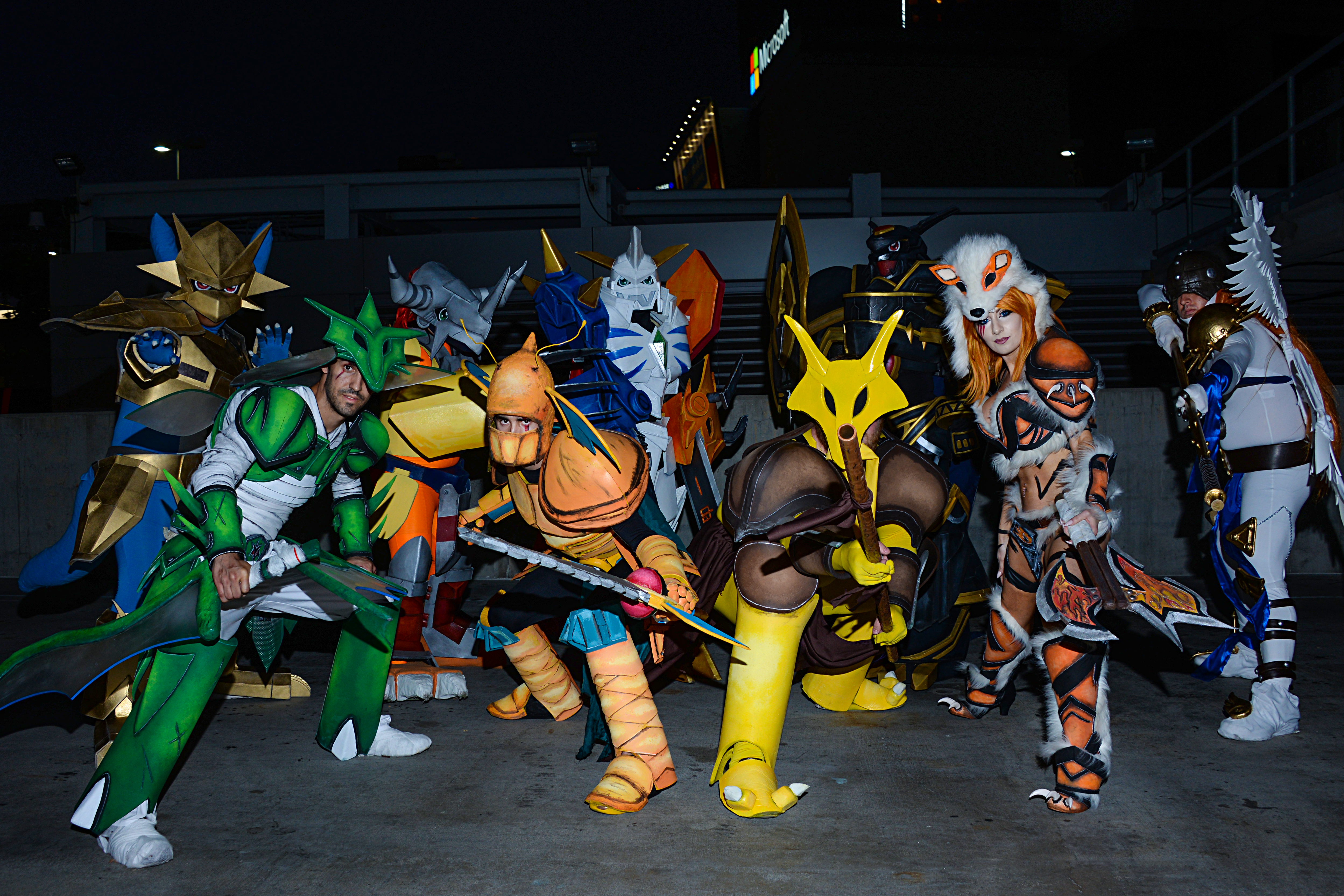 Anime Models outside at the Anime Expo at the Los Angeles Convention Center in Los Angeles California on July 3, 2016 - Photo by Glenn Francis of